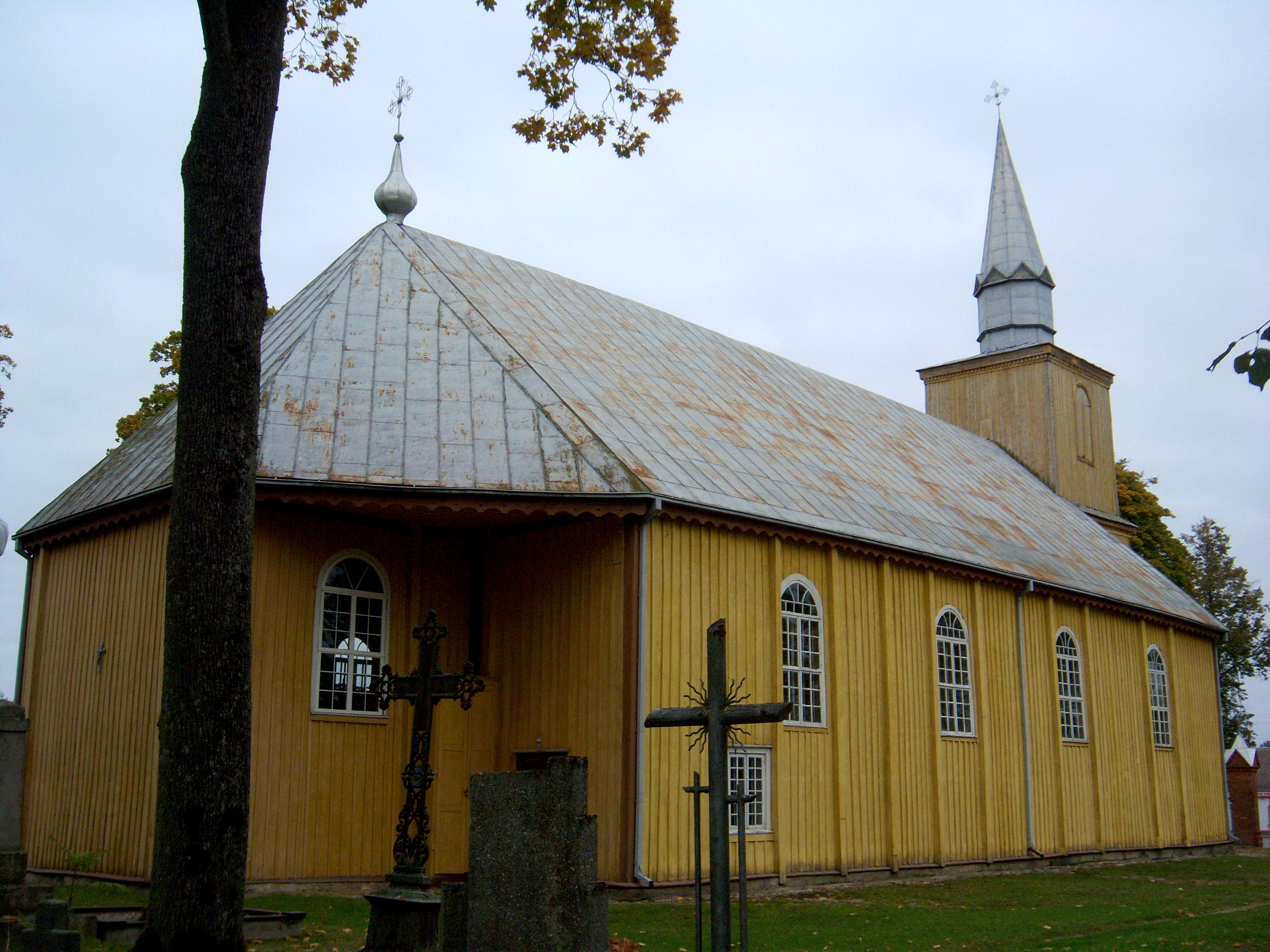 Catholic church in Vandžiogala, Kaunas District, Lithuania